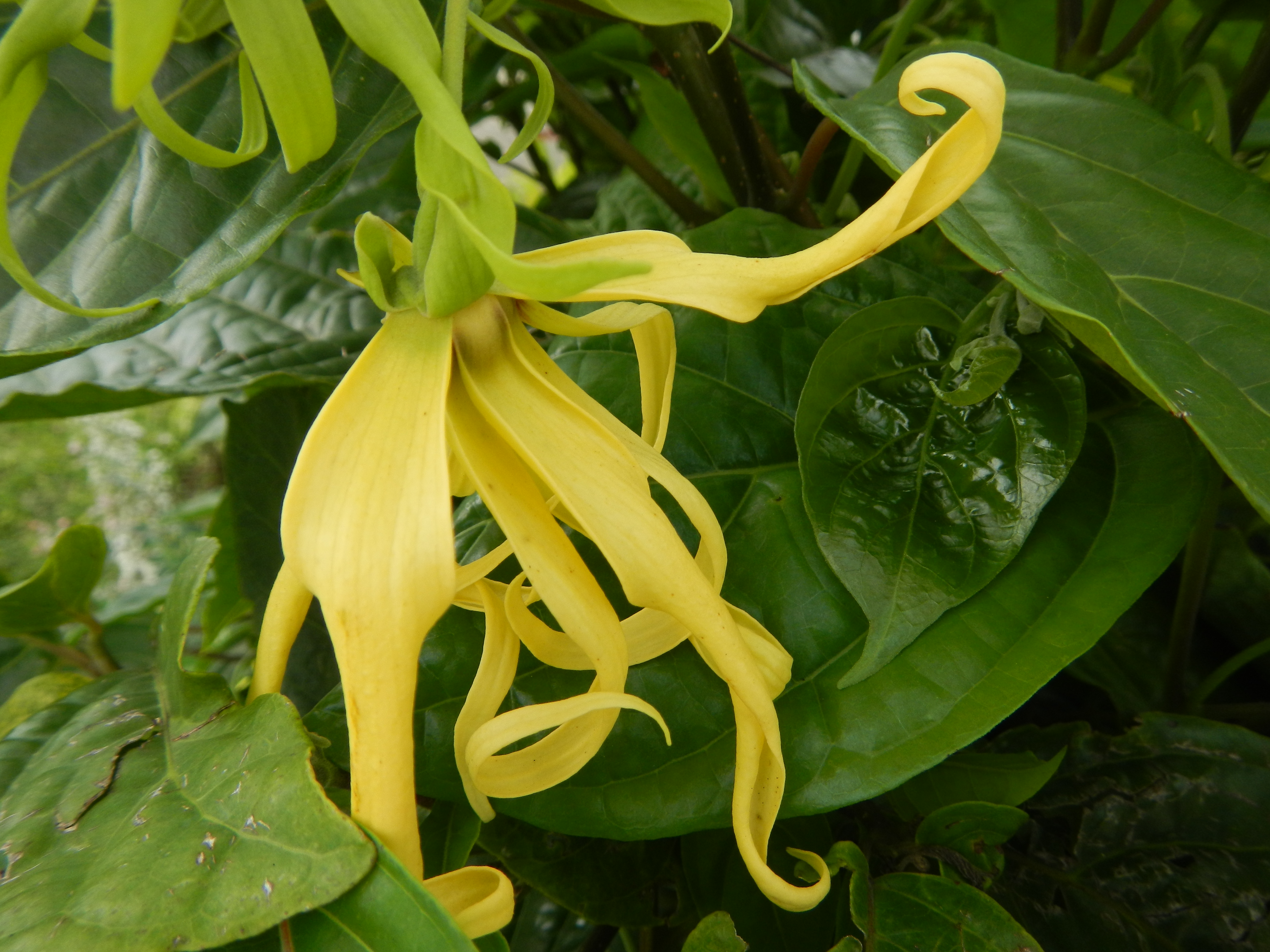 Cananga odorata[1] commonly called ylang-ylang (/ˈiːlæŋ ˈiːlæŋ/ ee-lang-ee-lang), cananga tree, ilang-ilang, kenanga (Indonesian), fragrant cananga, Macassar-oil plant or perfume tree,[2] is a tree valued for its perfume. The essential oil derived from the flowers is used in aromatherapy. at the Our Lady Mediatrix of All Graces [2] Our Lady of Mediatrix of All Graces (Spanish: Nuestra Senora de la Medianera de toda gracia